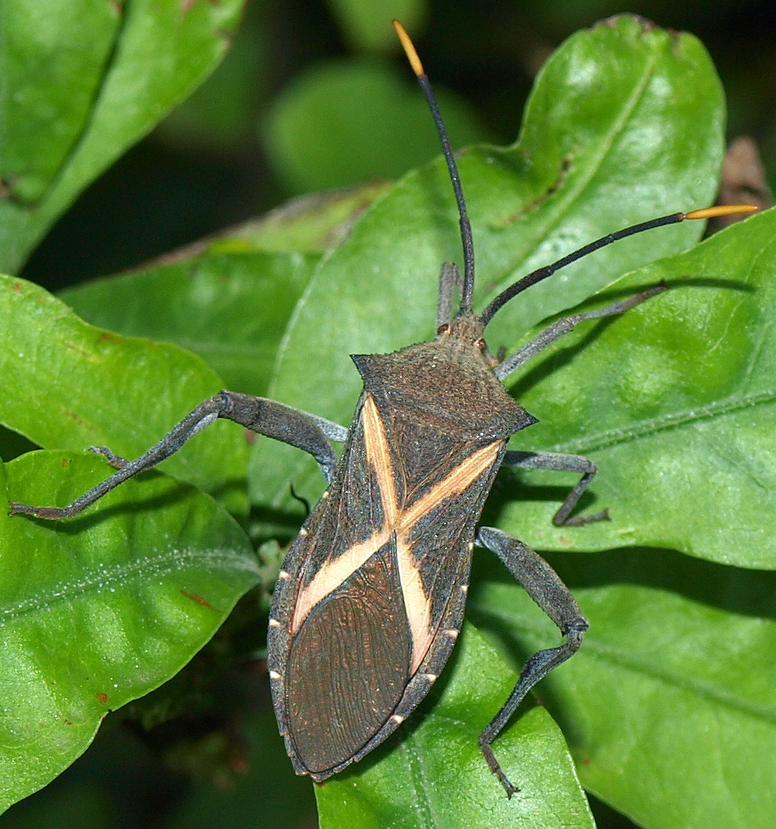 A Crusader Bug